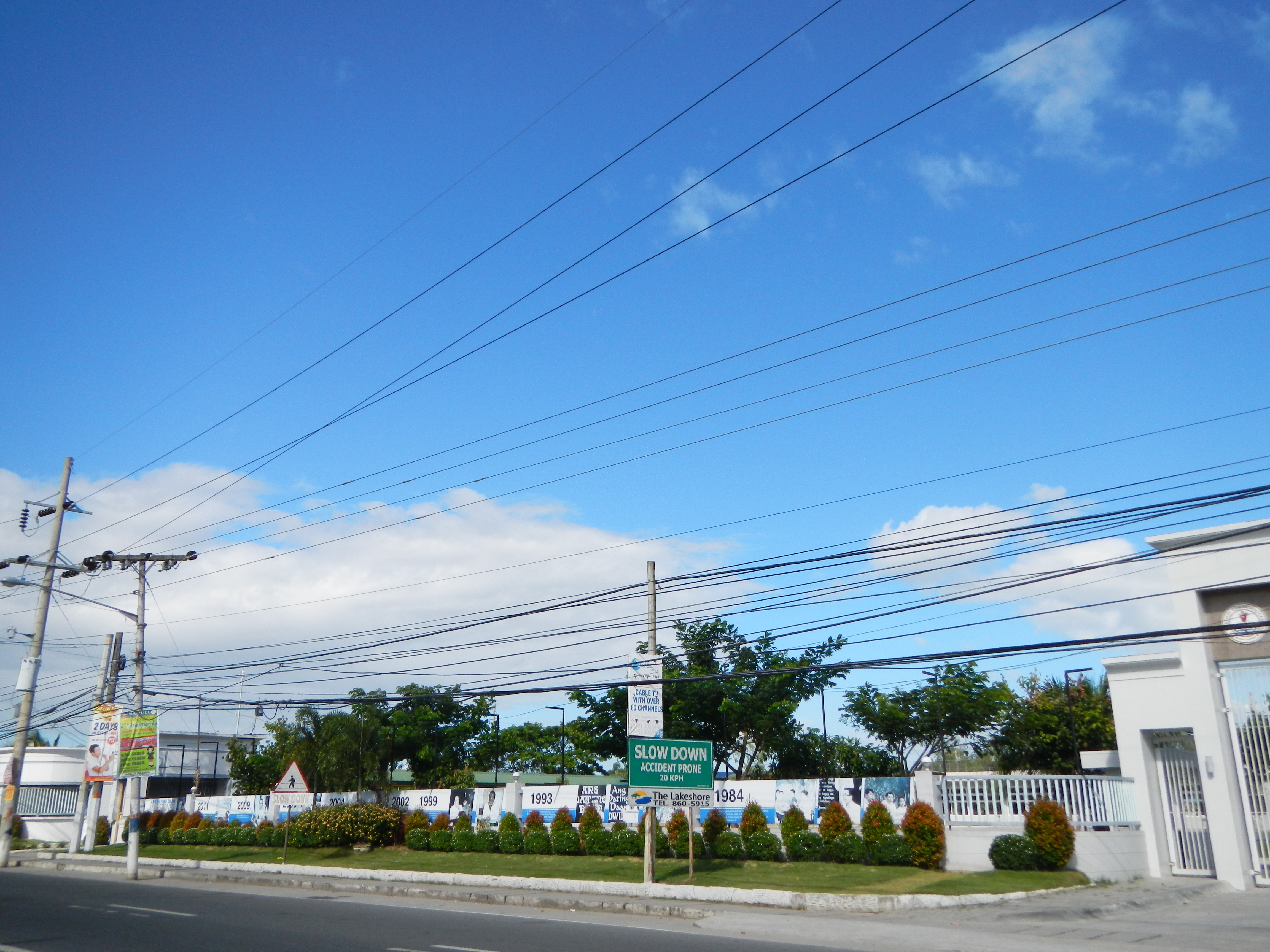 Ang Dating Daan[Ang Dating Daan] Central Office, Apalit, Pampanga[1]